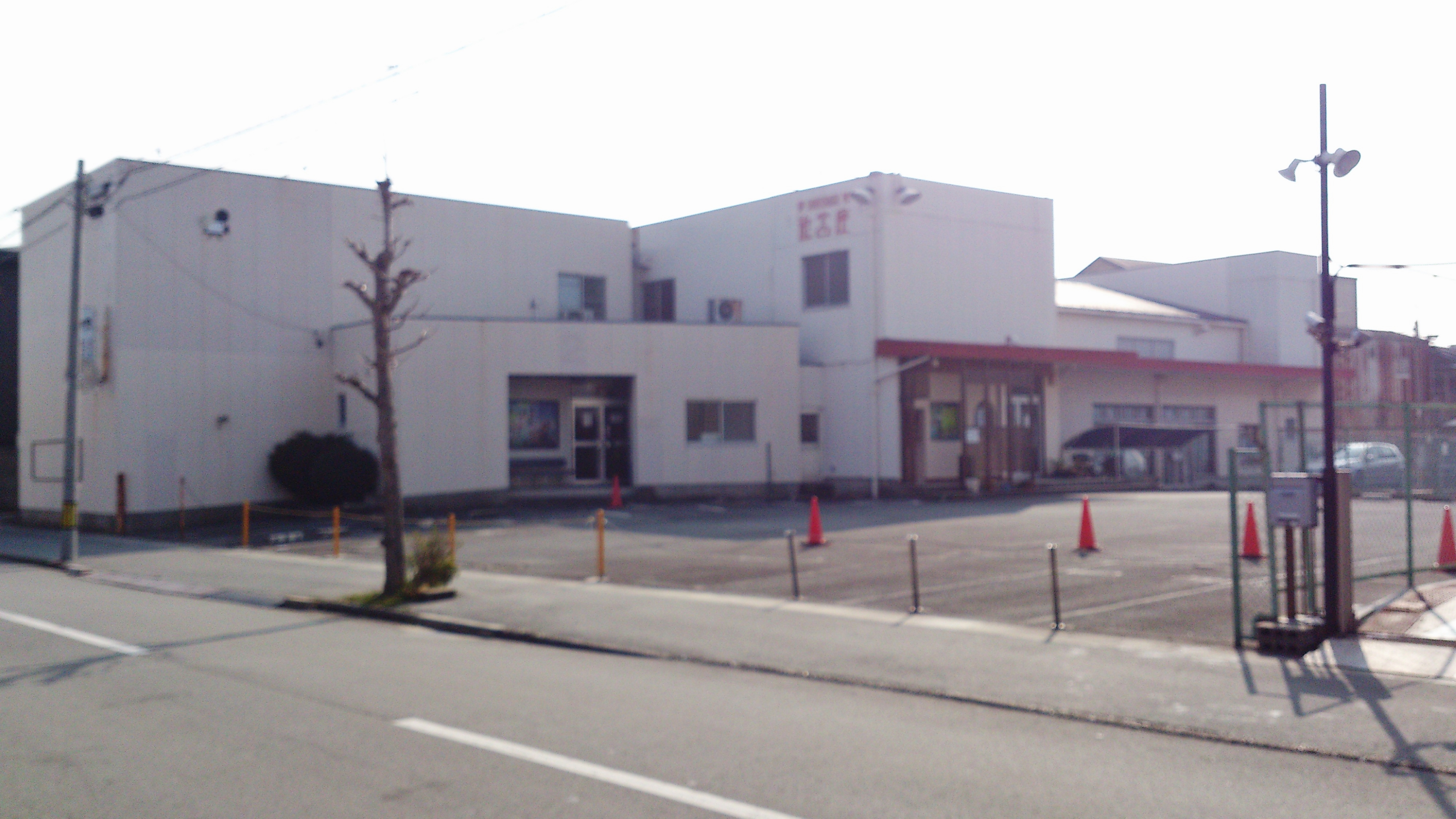 This is the movie theater "Ise-Shintomiza" in Ise, Mie, Japan.